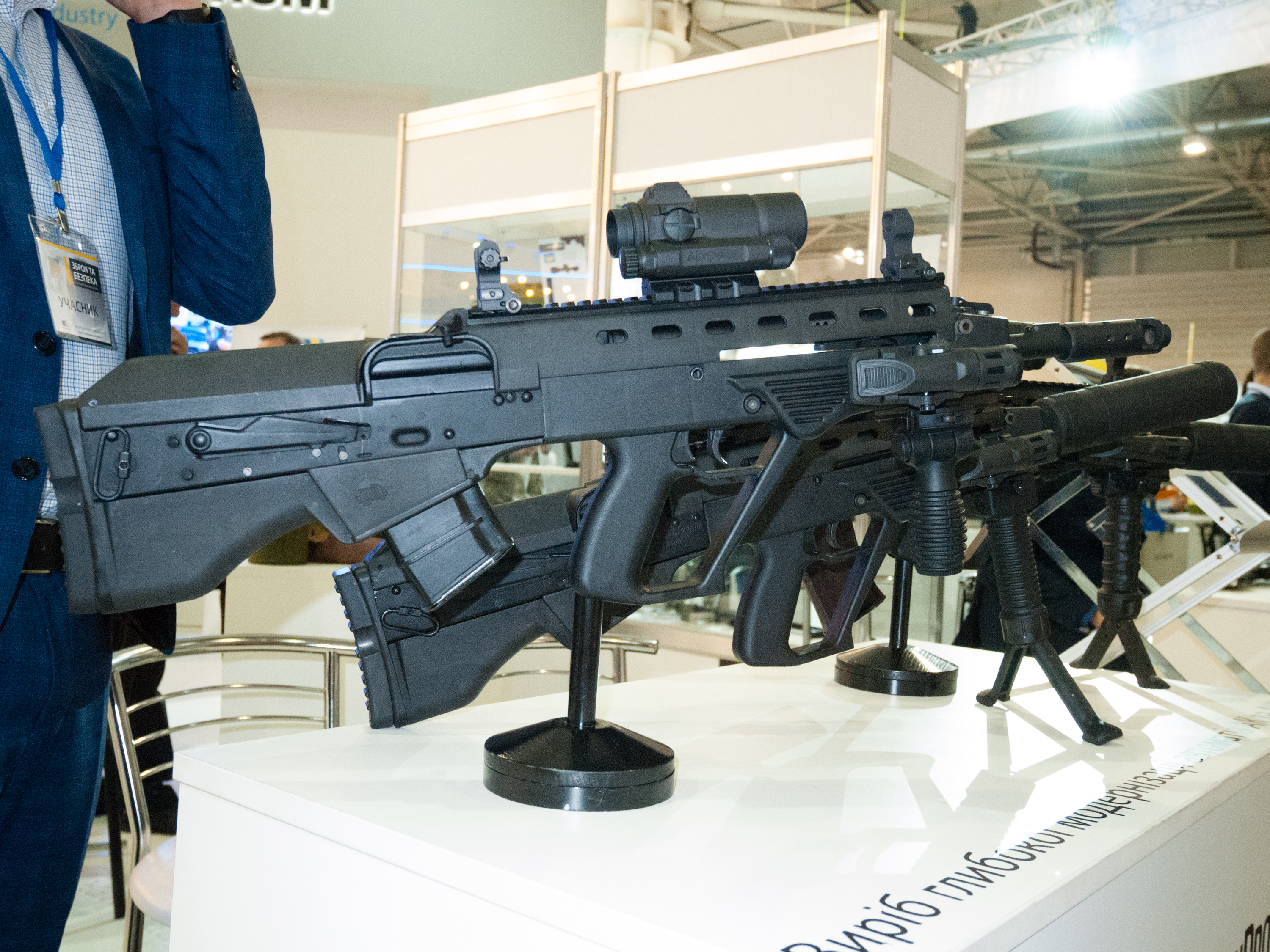 automatic rifle (Ukraine)